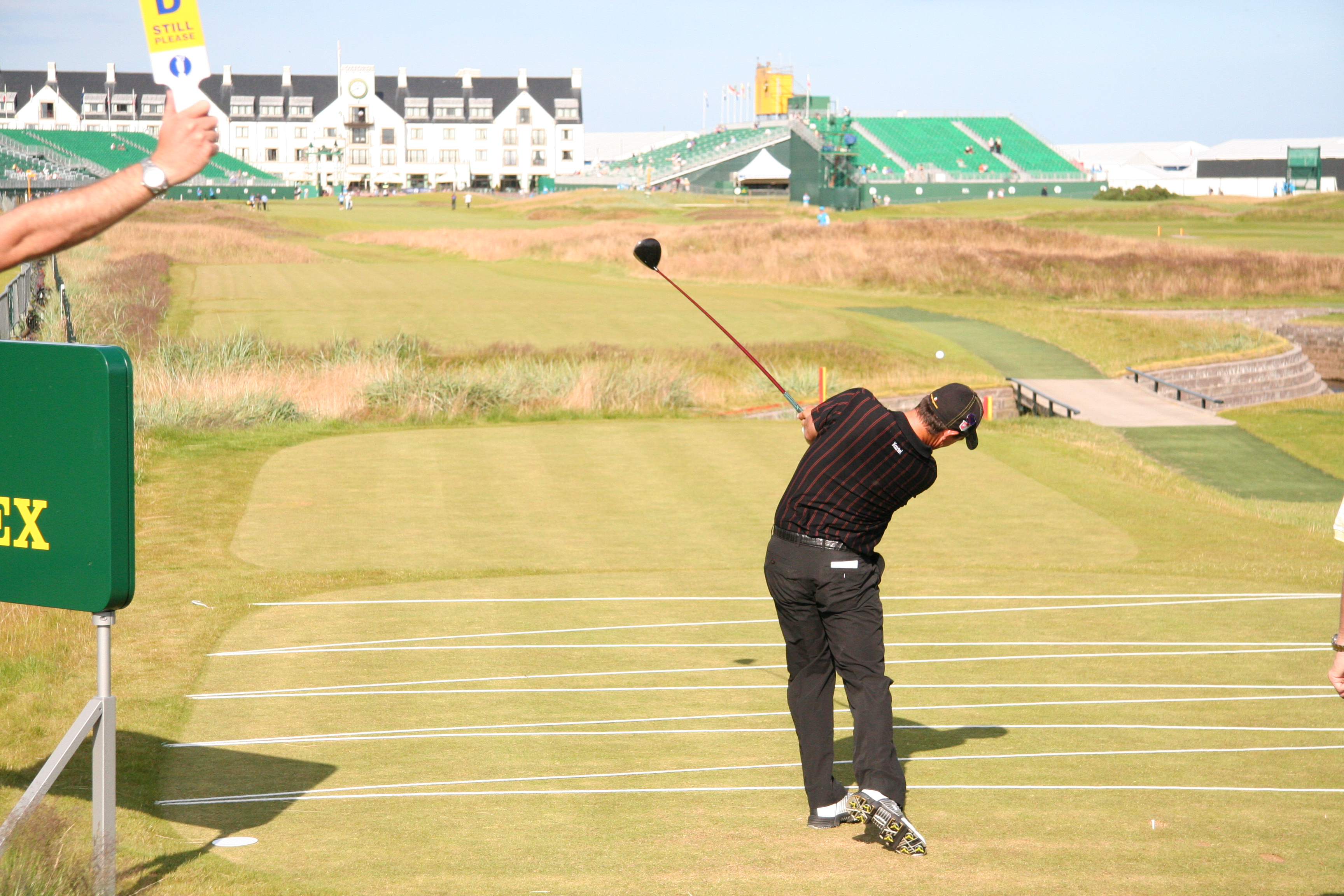 Pádraig Harrington teeing off at the Open at Carnoustie in 2007.